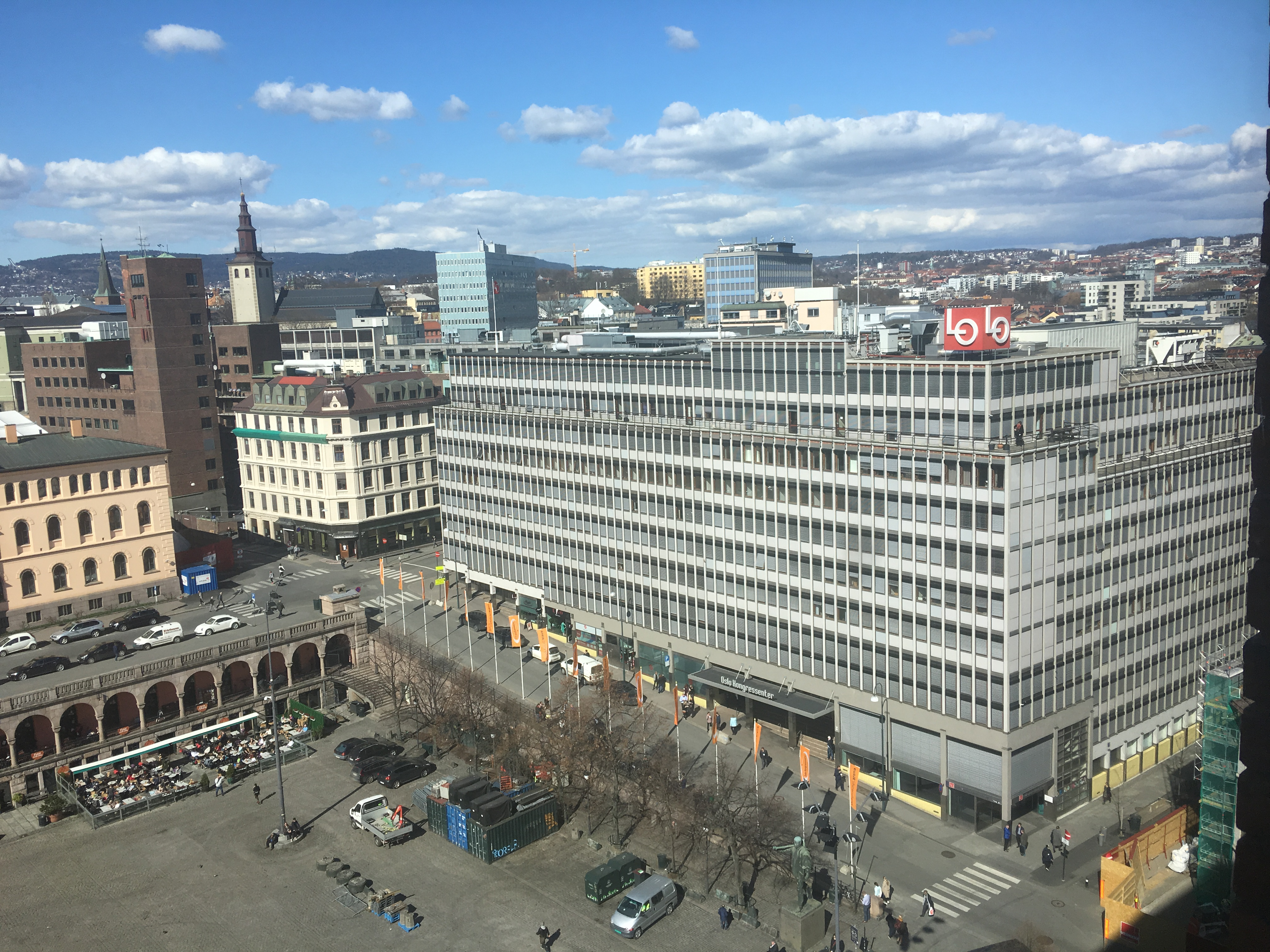 Youngstorges square with "Folkets Hus" and the Labour Union of Norway (LO). Oslo.